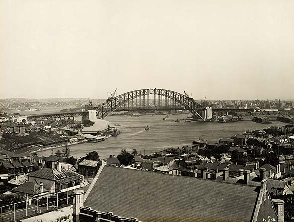 View of the almost completed Sydney Harbour Bridge from Sydney Church of England Grammar School, 1931.